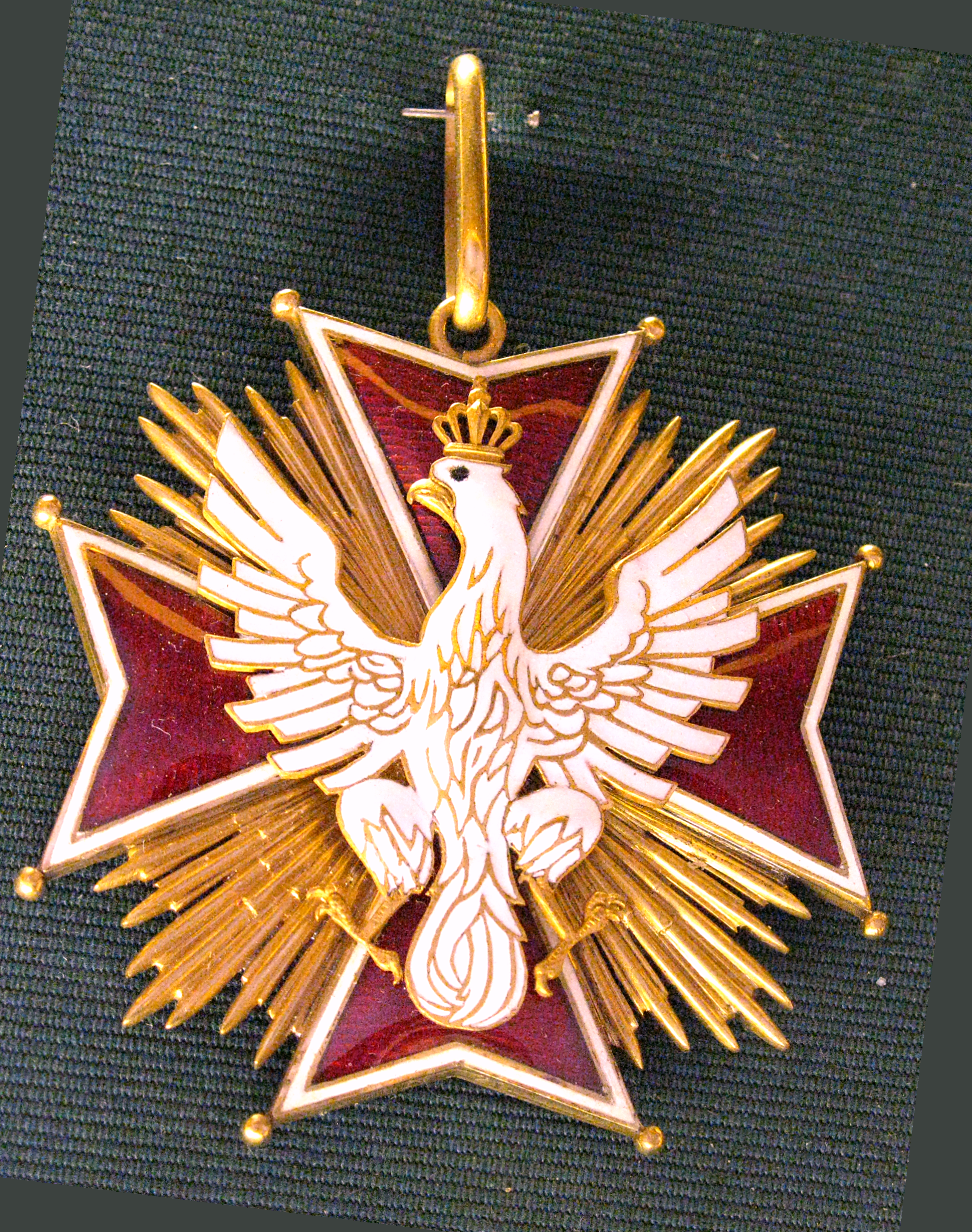 Cross of Order ogf the White Eagle from 1921